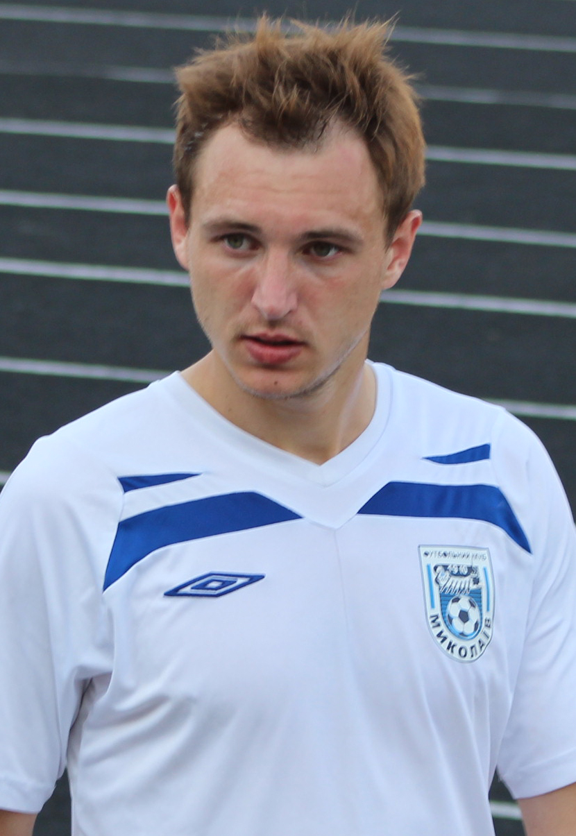 Oleksandr Muzyka